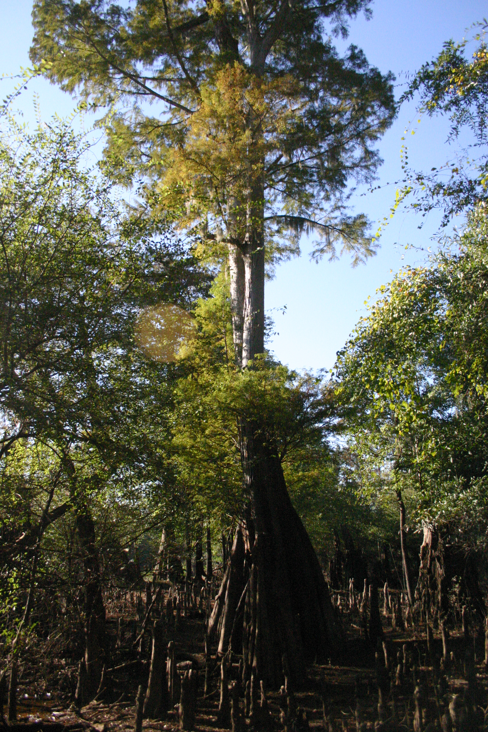 A grand old cypress tree in the Santee River valley, near Andrews, South Carolina (not to be confused with the Big Tree in Dublin Image copyleft: Image taken by me, released under GFDL, Pollinator 05:24, 9 February 2006 (UTC)